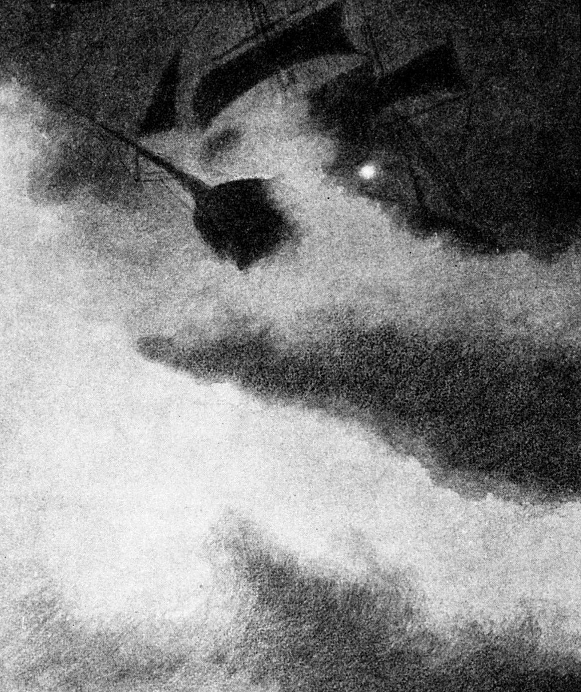 Theodor Kittelsen (1857 – 1914) Black and white sketches